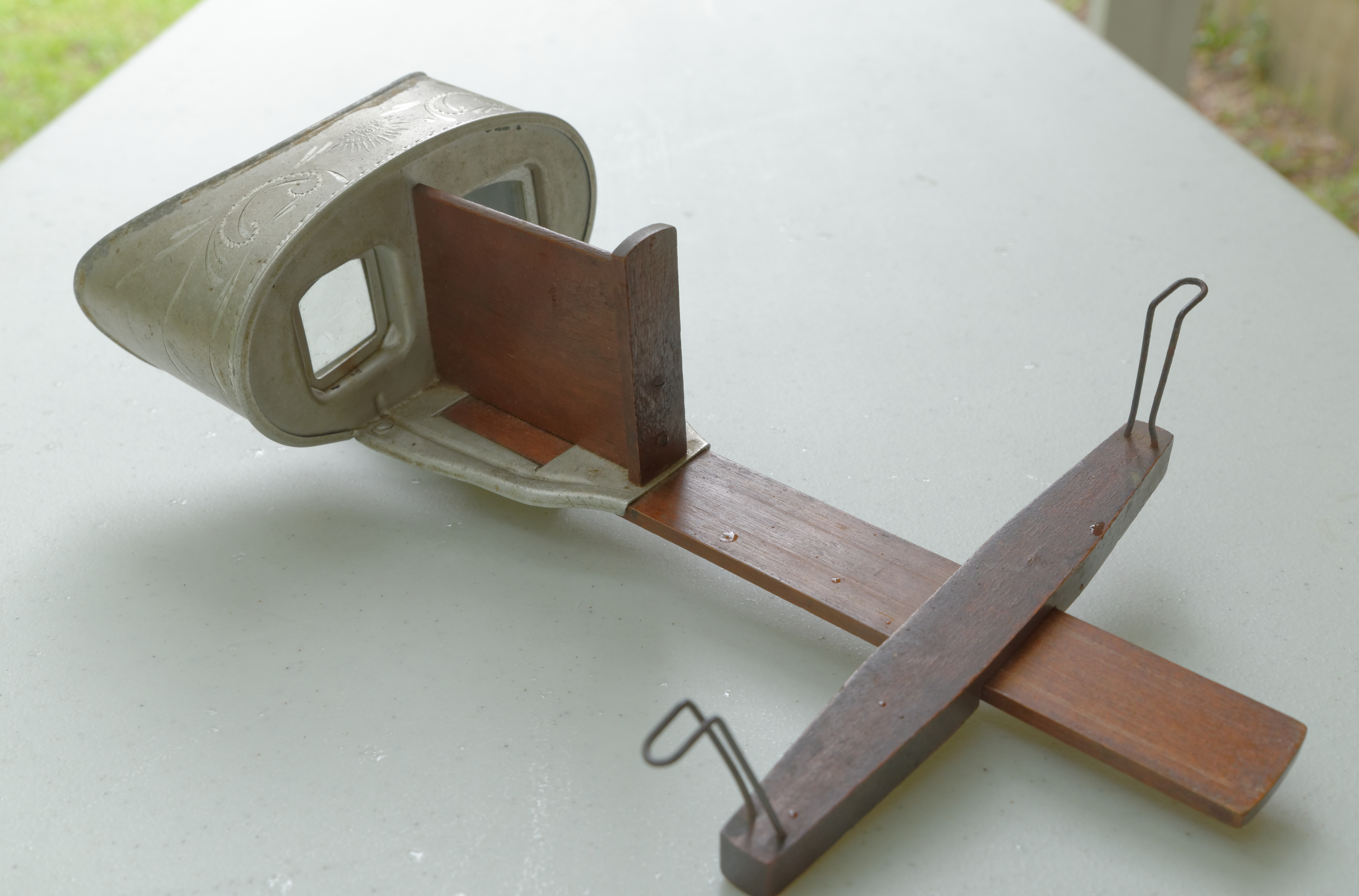 An antique U&U (Underwood and Underwood) Stereoscope